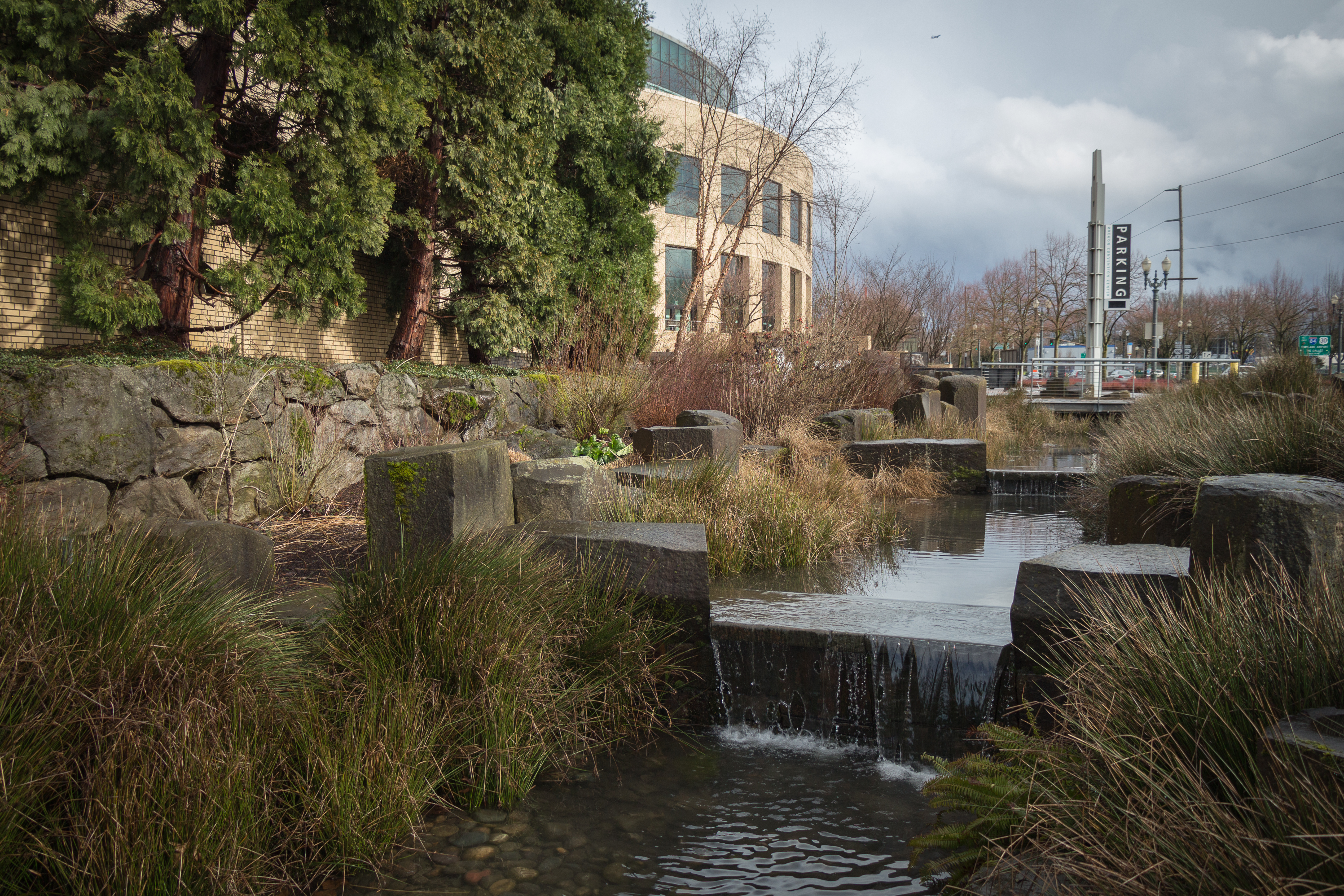 Oregon Convention Center Rain Garden. Portland, Oregon, USA. Photo by Jeremy Jeziorski